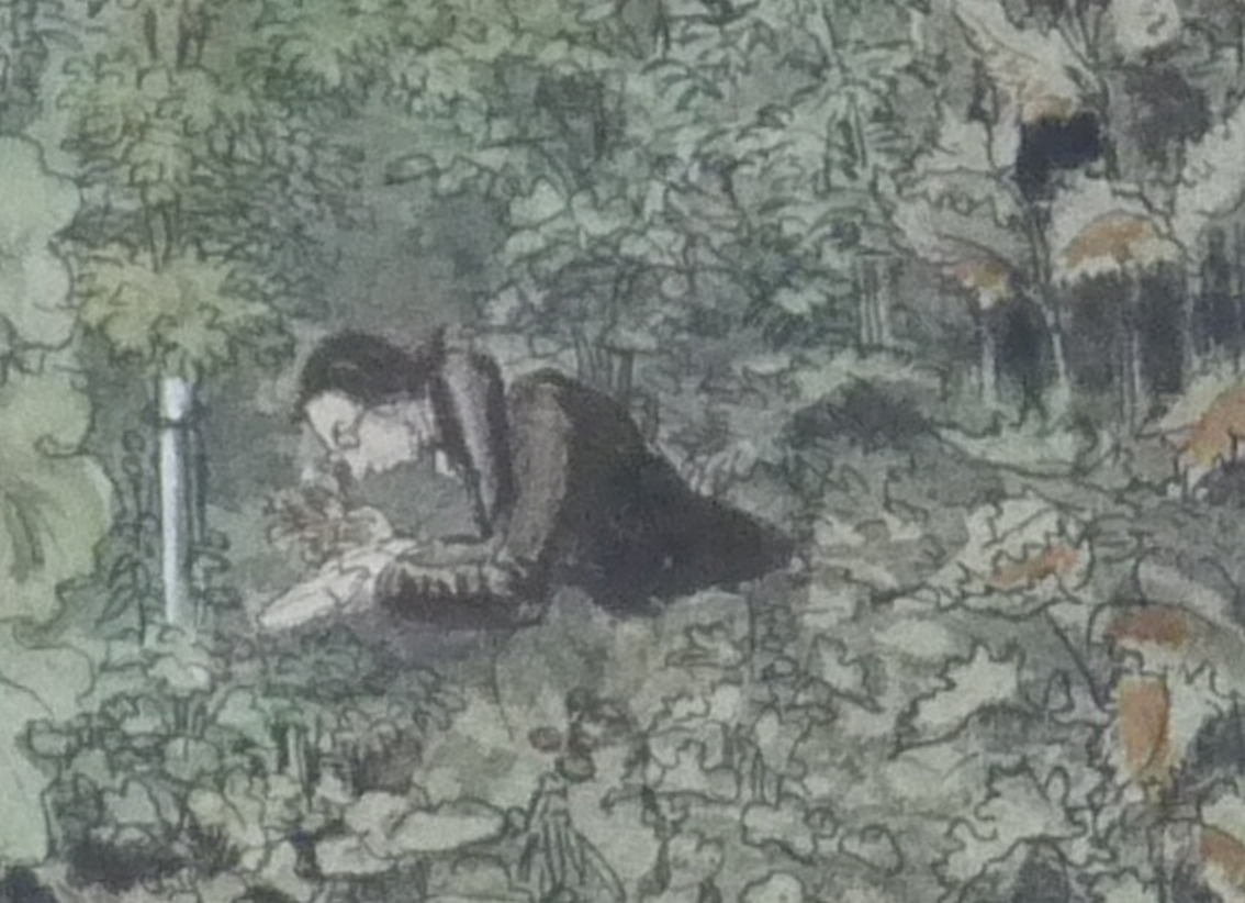 The young Otto Möllinger (1814-1886, German-Swiss scientist, secondary school teacher, inventor, and businessman) in 1840, identifying a plant in the botanical garden of Solothurn. Detail of a drawing by Martin Disteli, copy in the Central Library of Solothurn.